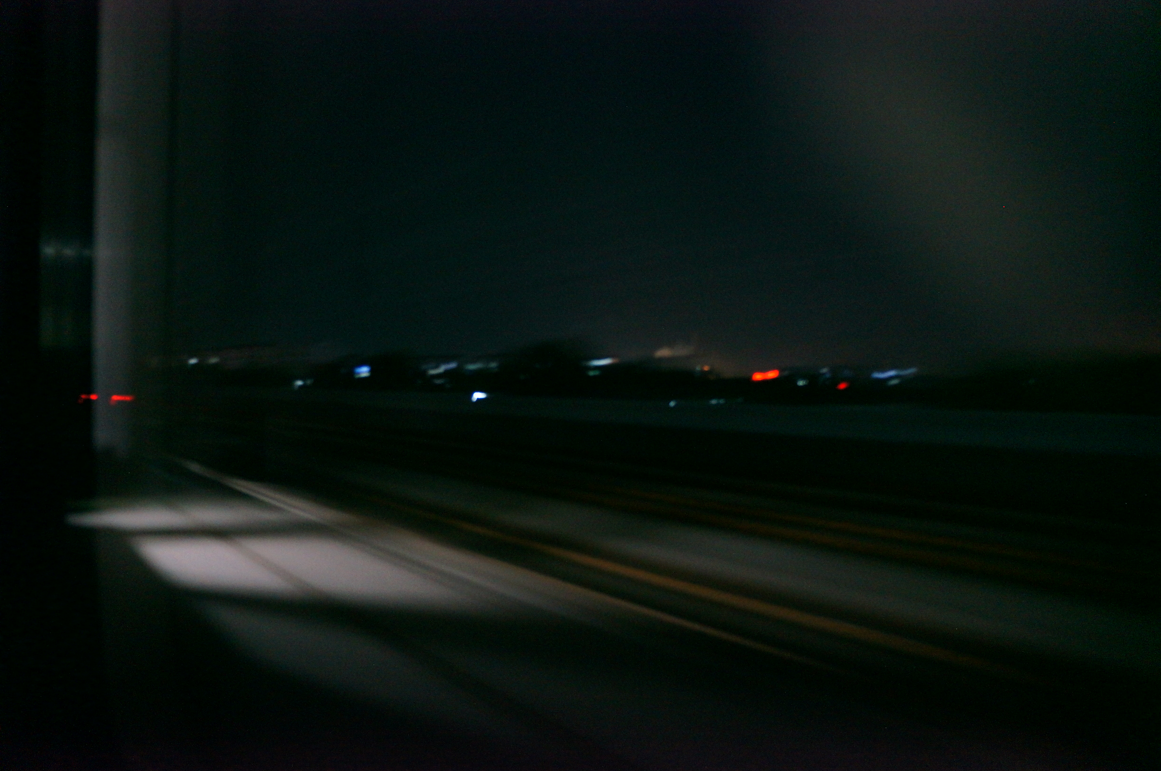 201606 Z9 passes Yancheng Station